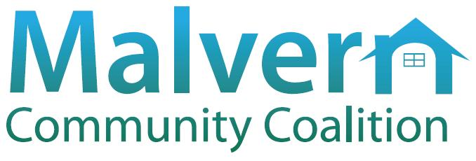 Malvern Community Coalition logo as of Friday September 18th, 2009.